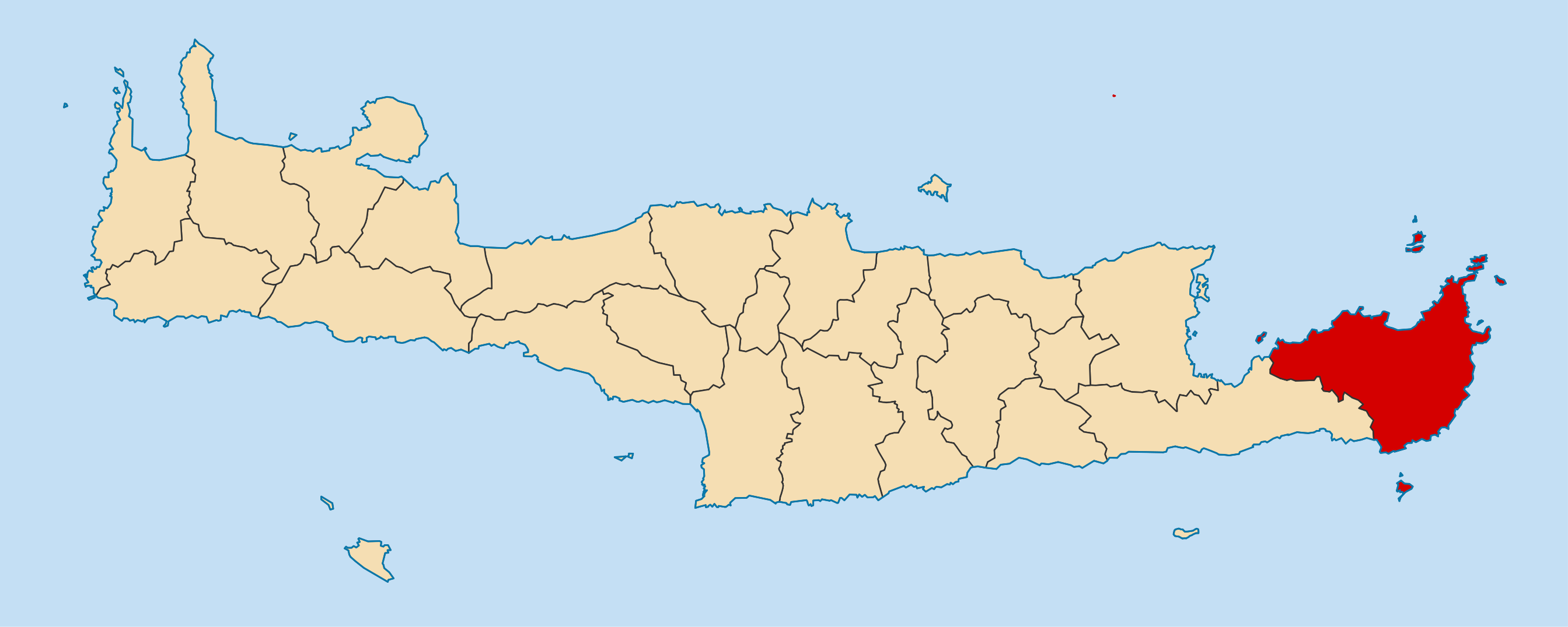 Locator map for Sitia municipality in Greek region Crete (2011)